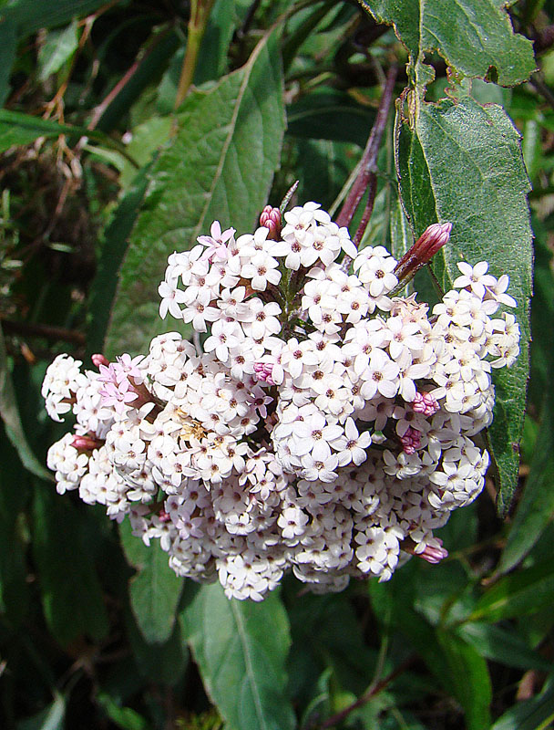 This species graces the mountains from Mexico to Colombia, here in western Panama. In context at